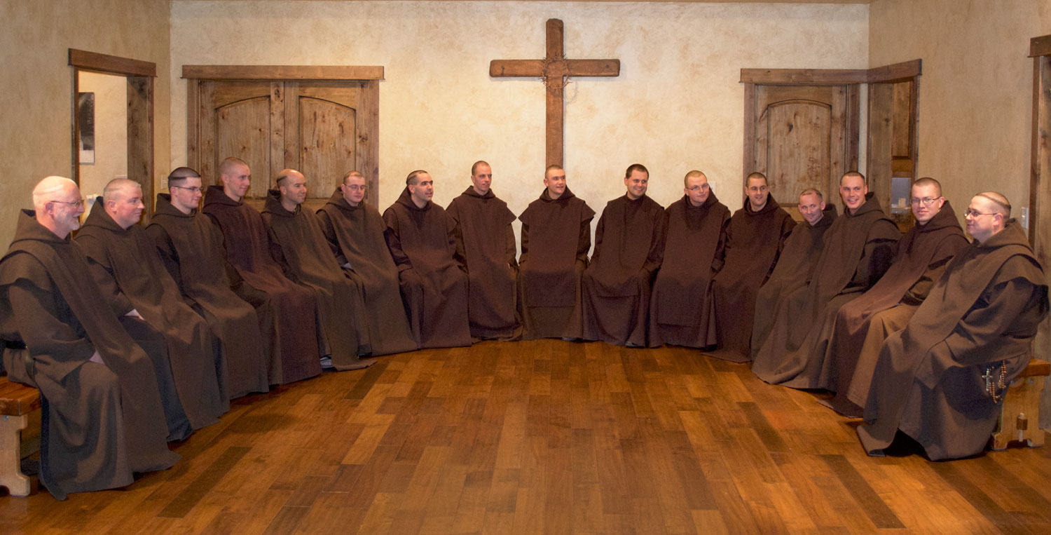 The Carmelite Monks recreate in their monastery.